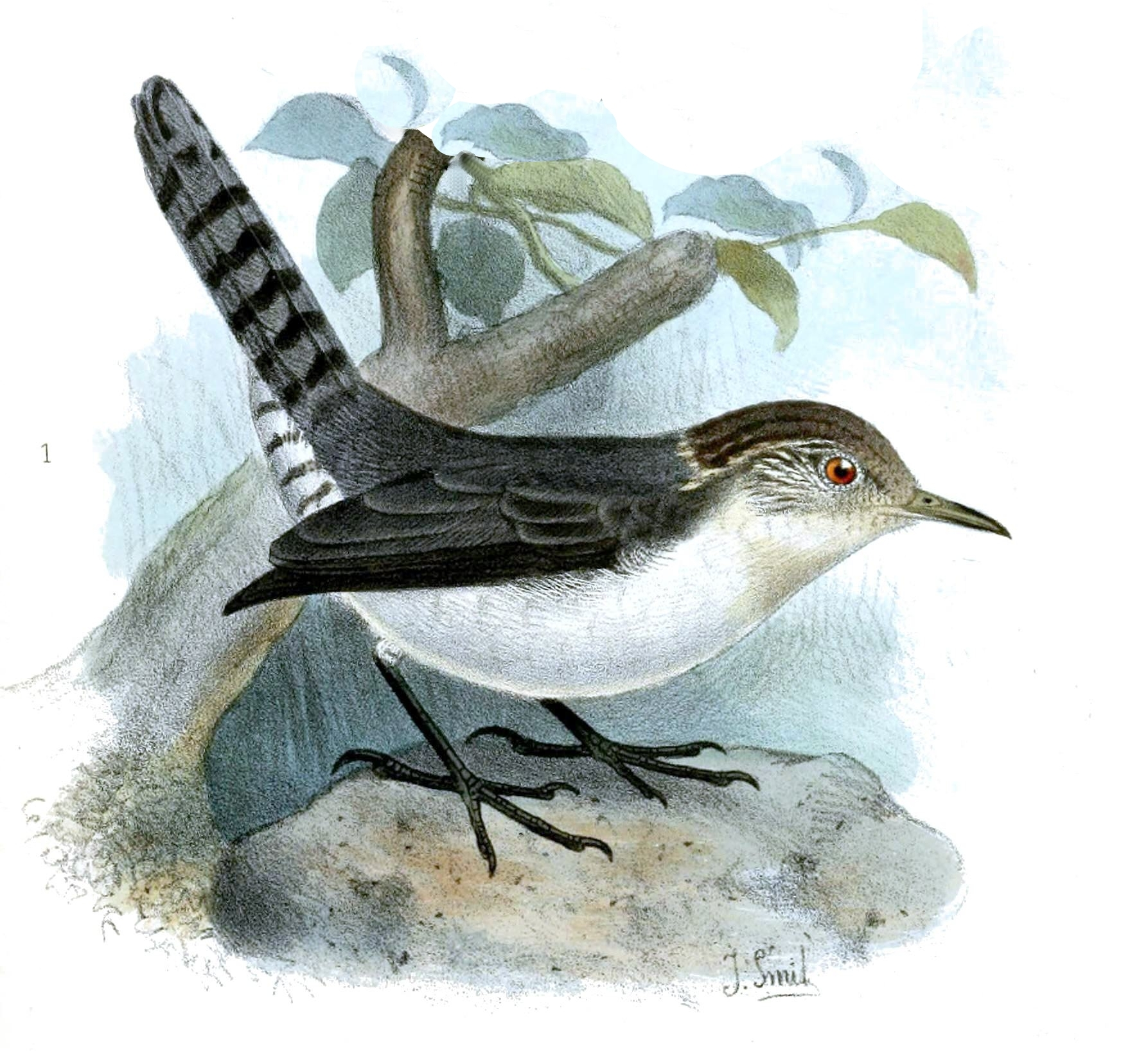 Equatorial Greytail, adult male (above); Grey-mantled Wren, adult male (below)